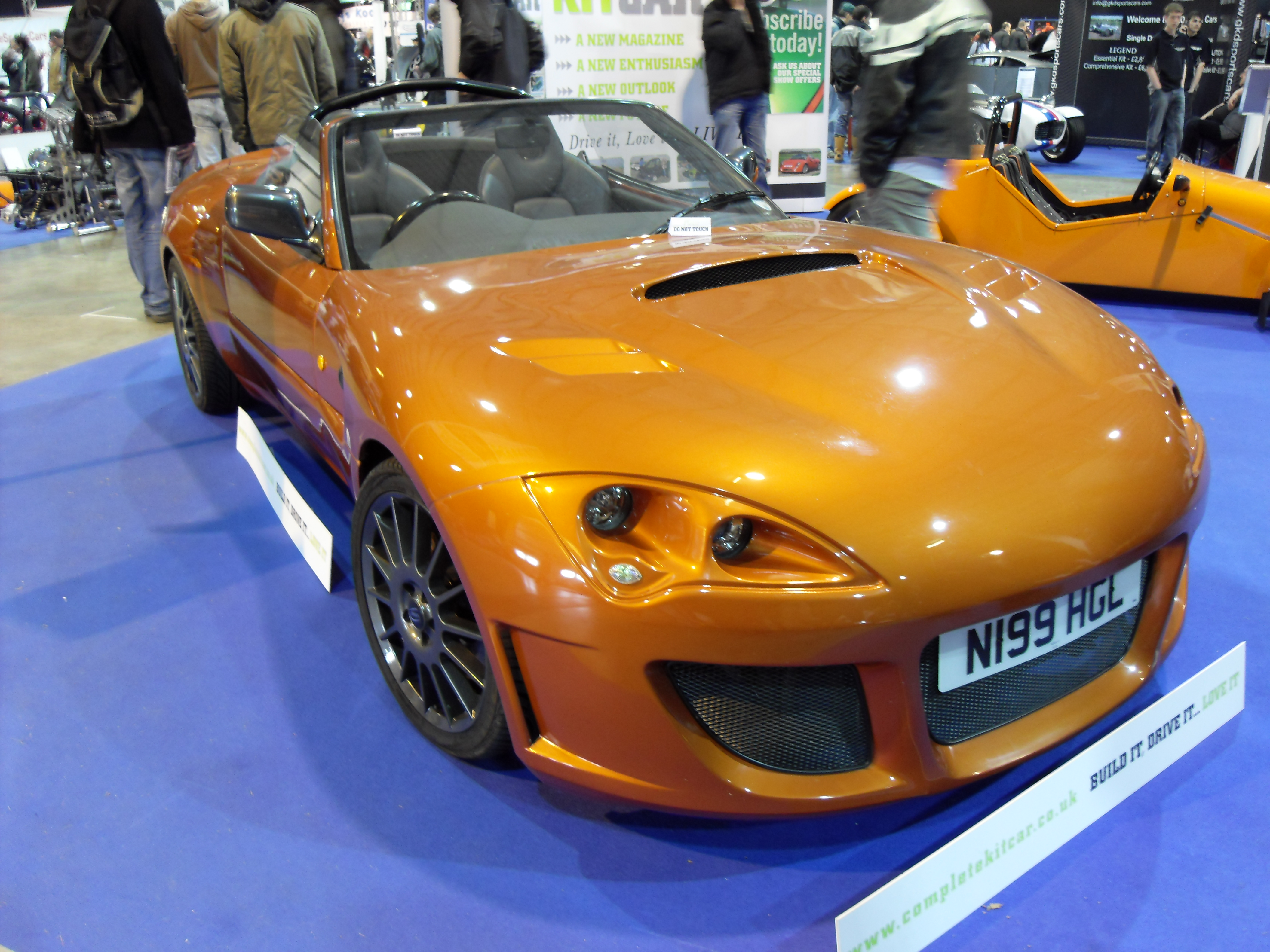 VLUU L310 W / Samsung L310 W taken at The National Kit Car Show Stoneleigh 2009